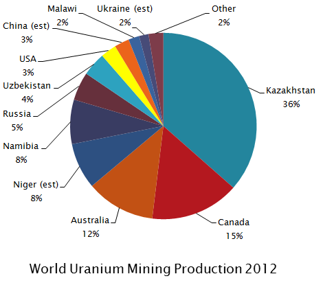 Production of uranium by country in 2012 pie chart, made with Microsoft Excel, information taken from World Uranium Mining Production, Publisher: World Nuclear Association, access date: 2014-02-06